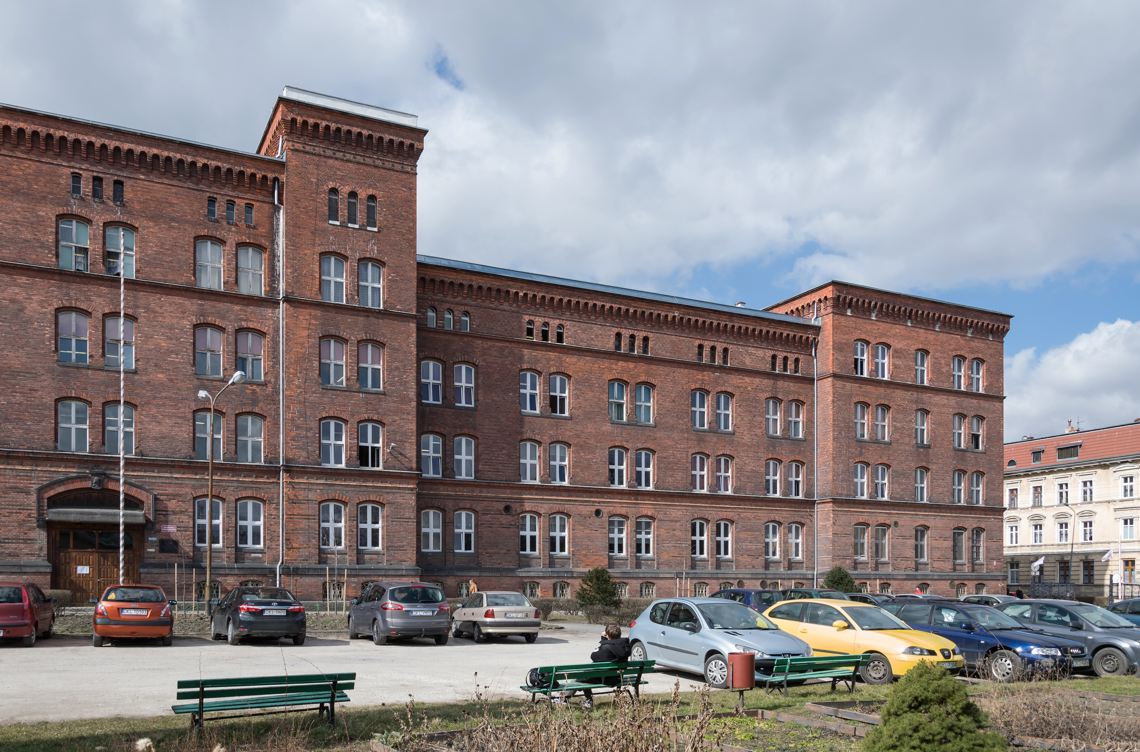 Kłodzka Szkoła Przedsiębiorczości in Kłodzko